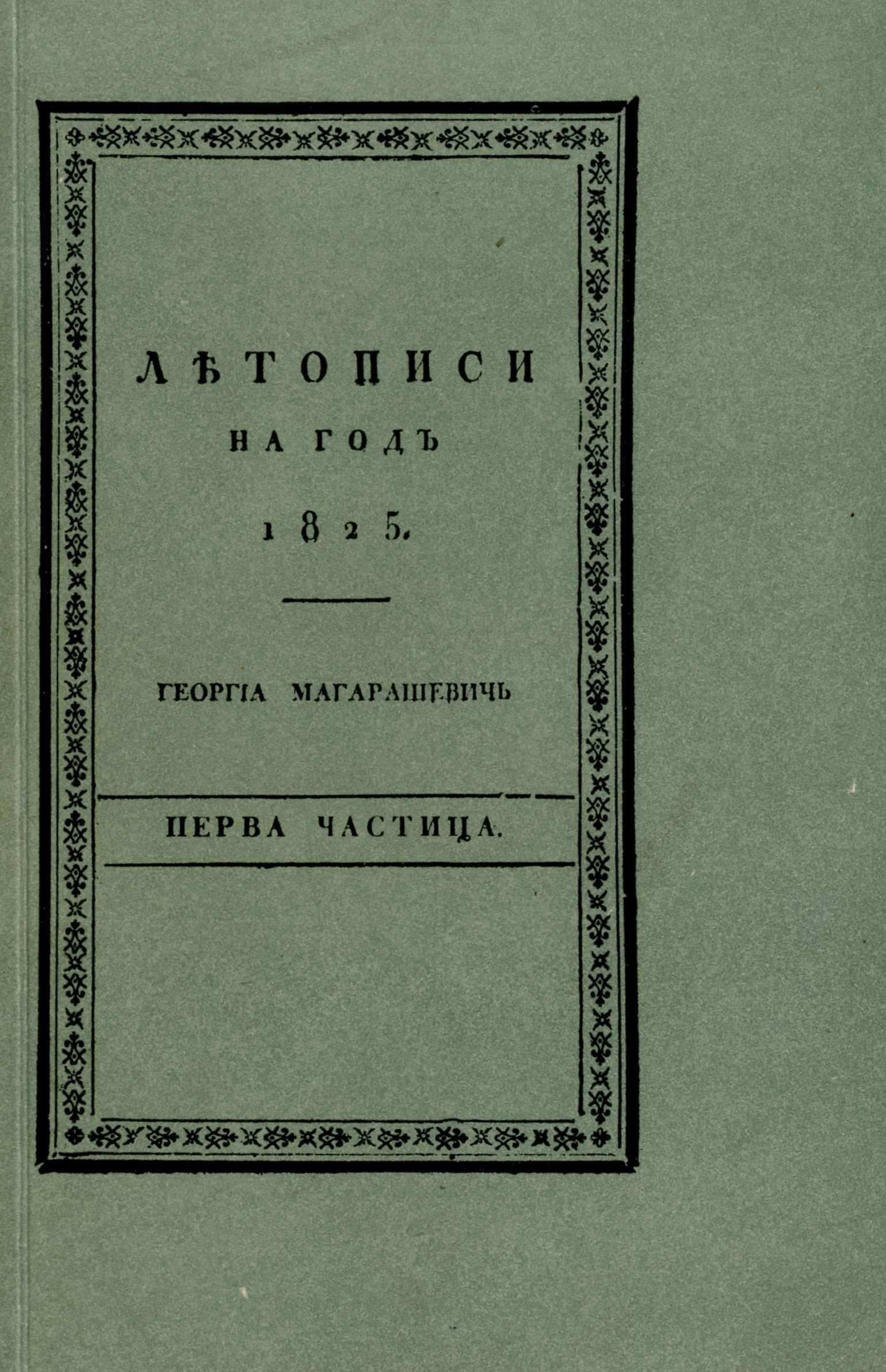 Serbske letopisi - cover of first number Letopis from 1825.